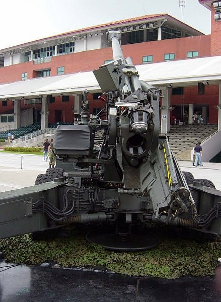 Open breech of the FH-2000 howitzer as seen from the loader position, photographed at the Singapore Army Open House 2007.